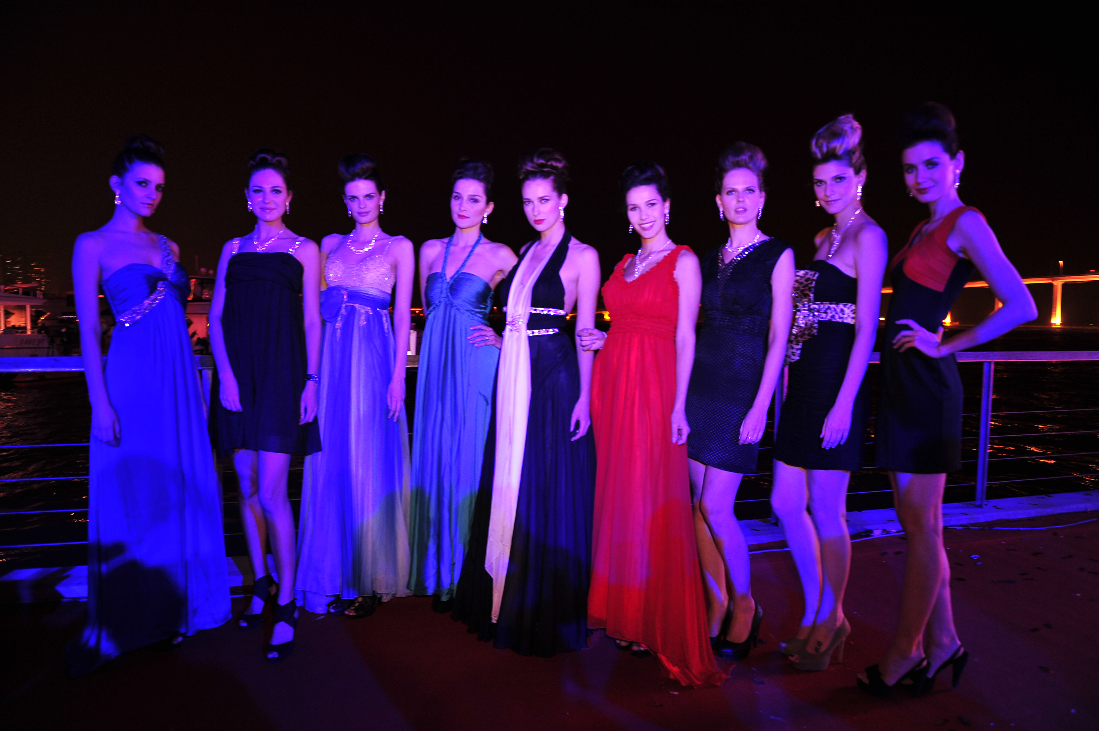 Macau yacht fair model show.